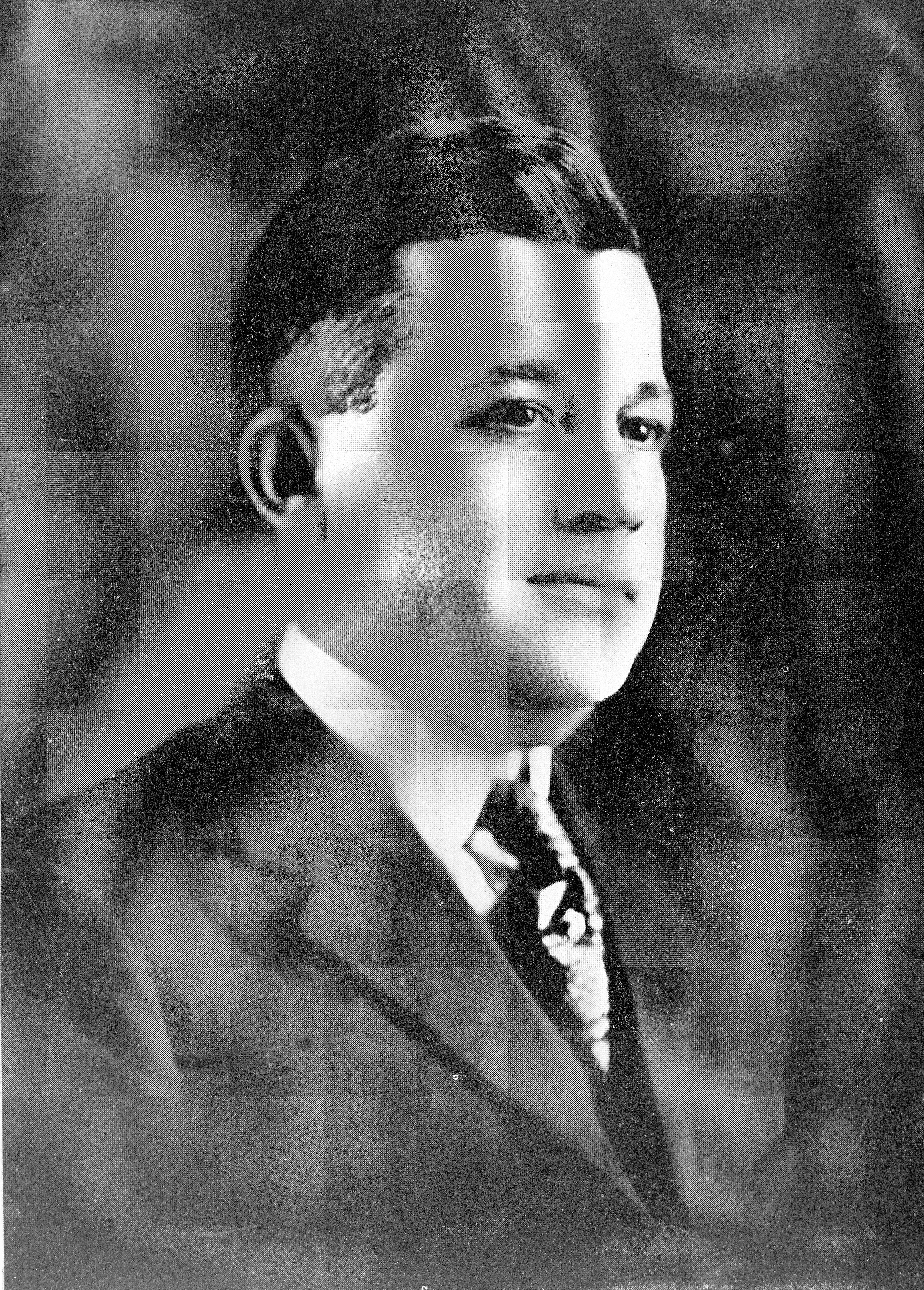 Richard T. Fountain (1885-1945), lawyer, legislator, Speaker of the House, and Lieutenant Governor. From the General Negative Collection, State Archives of North Carolina.